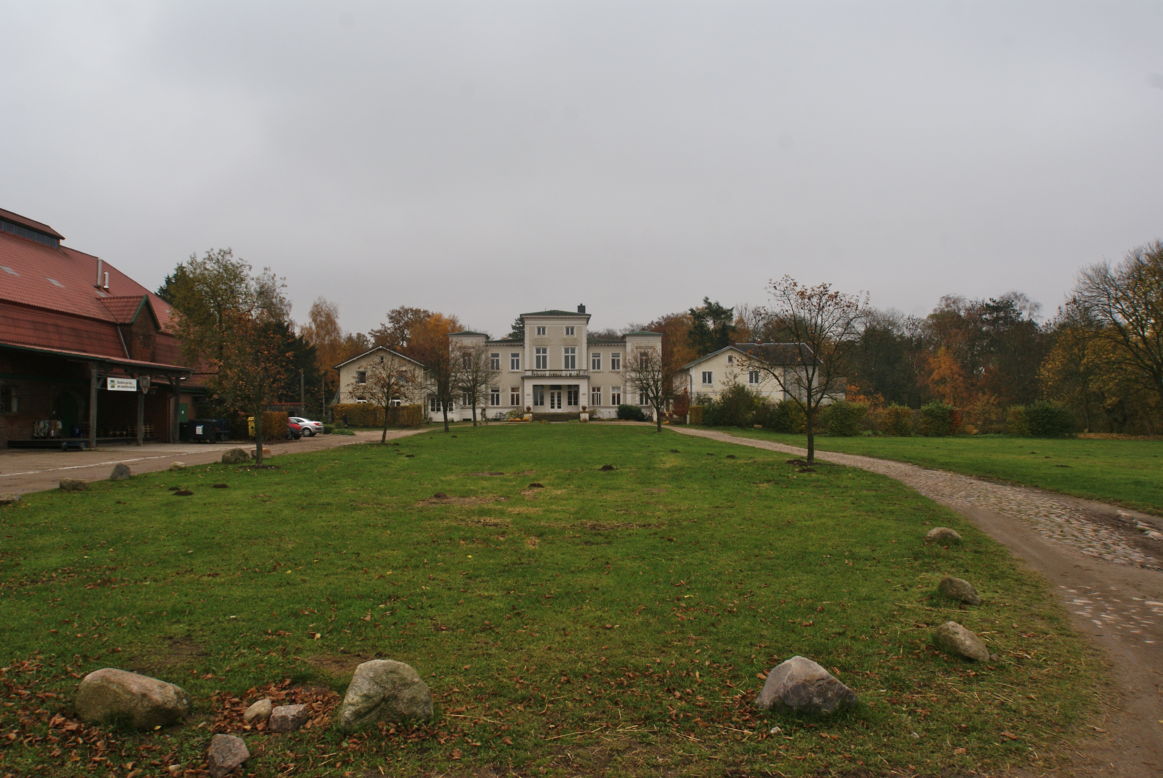 Tangstedt (Wulksfelde), Germany: Gut Wulksfelde Hall